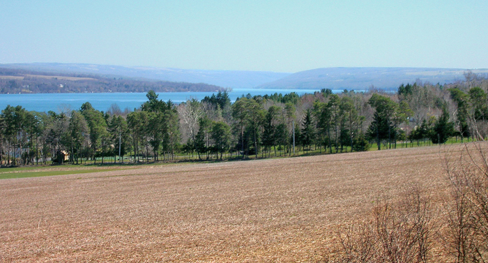 Paul Malo photograph